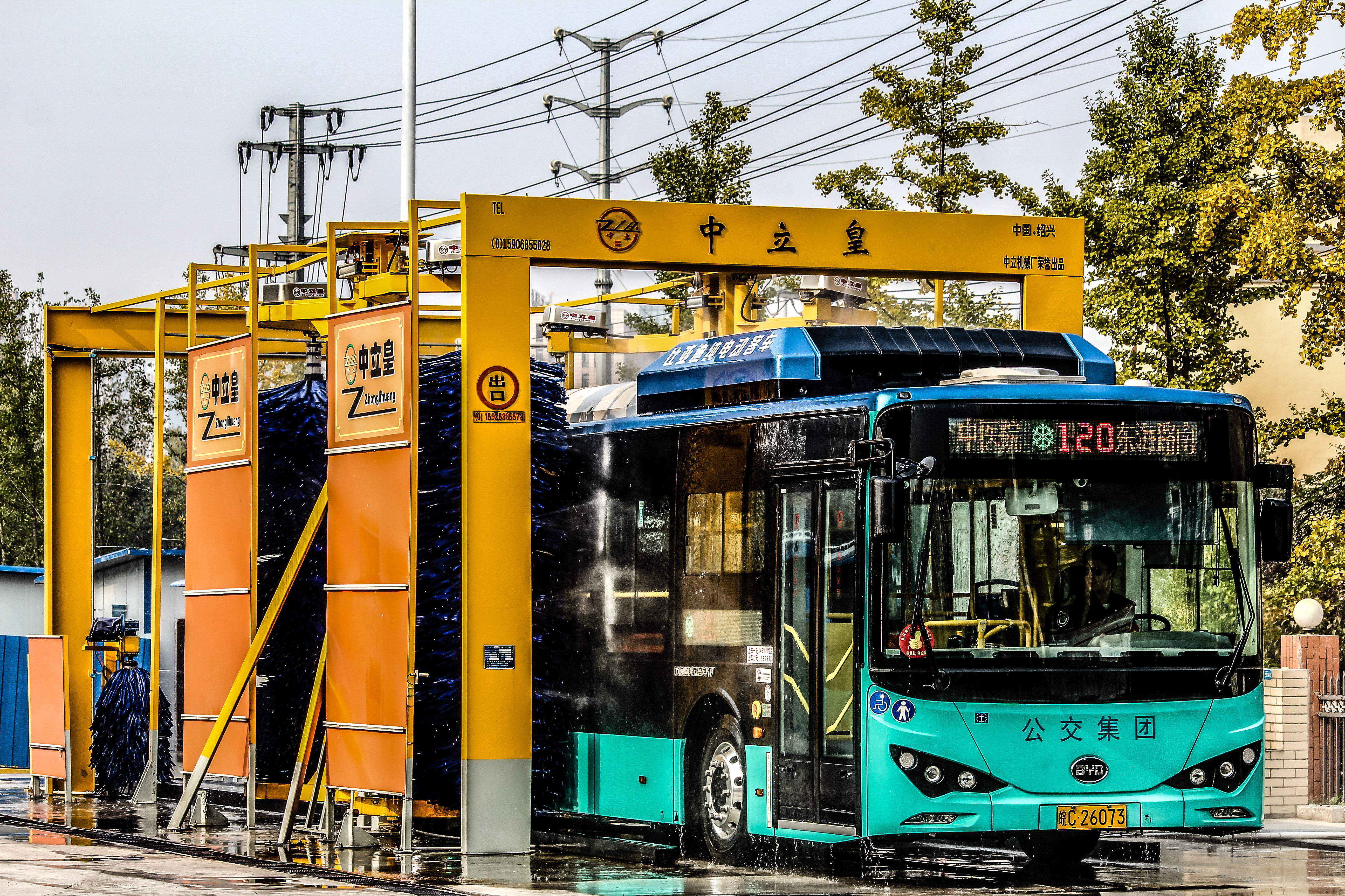 Bengbu Bus No.120 N1